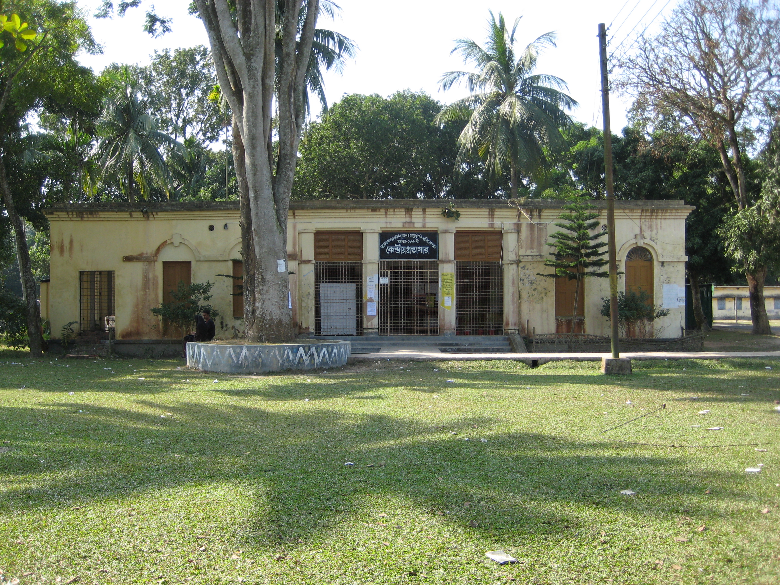 Library Building, Mawlana Bhashani Science and Technology University Mawlana Bhashani Science and Technology University has been named after one of the renowned political leaders and philosophers of Bangladesh- Mwalana Abdul Hamid Khan Bhashani. The university was established in Santosh, Tangil in 1999.